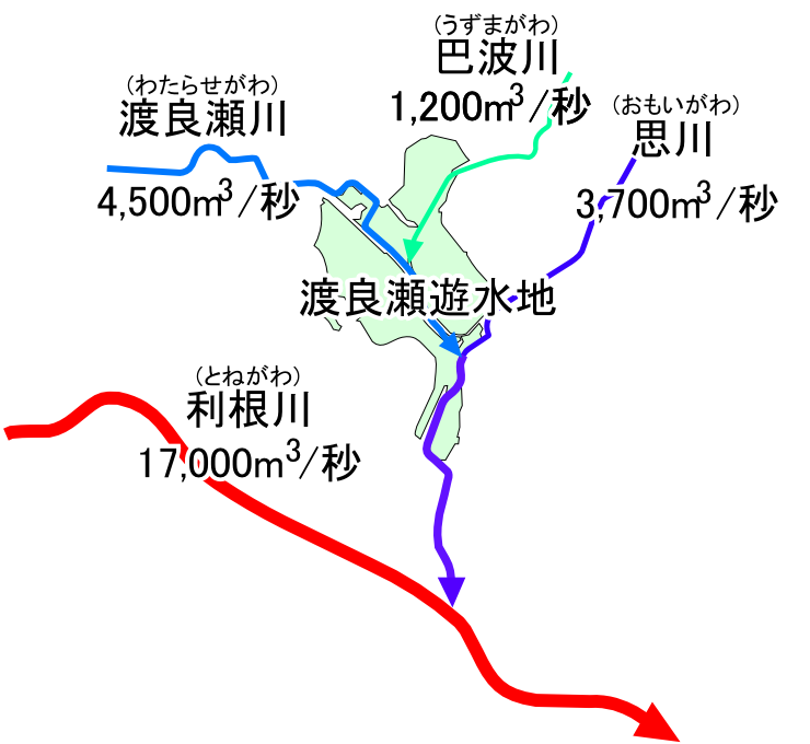 Watarase flood control pond by Japanese